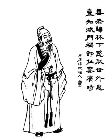 A Qing dynasty portrait of Lu Boshe